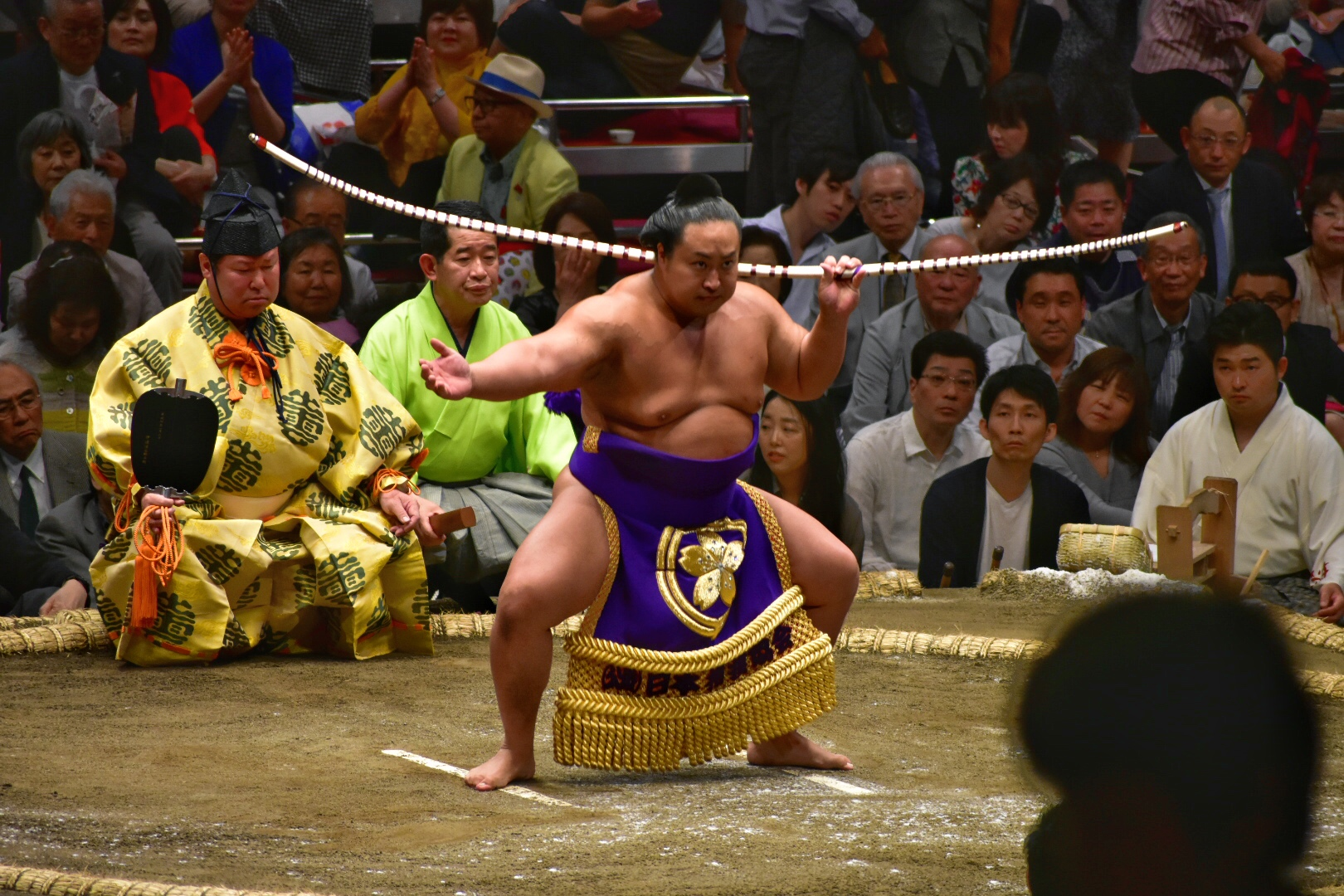 Yumitori-Shiki is one of the ceremonies of Sumō.